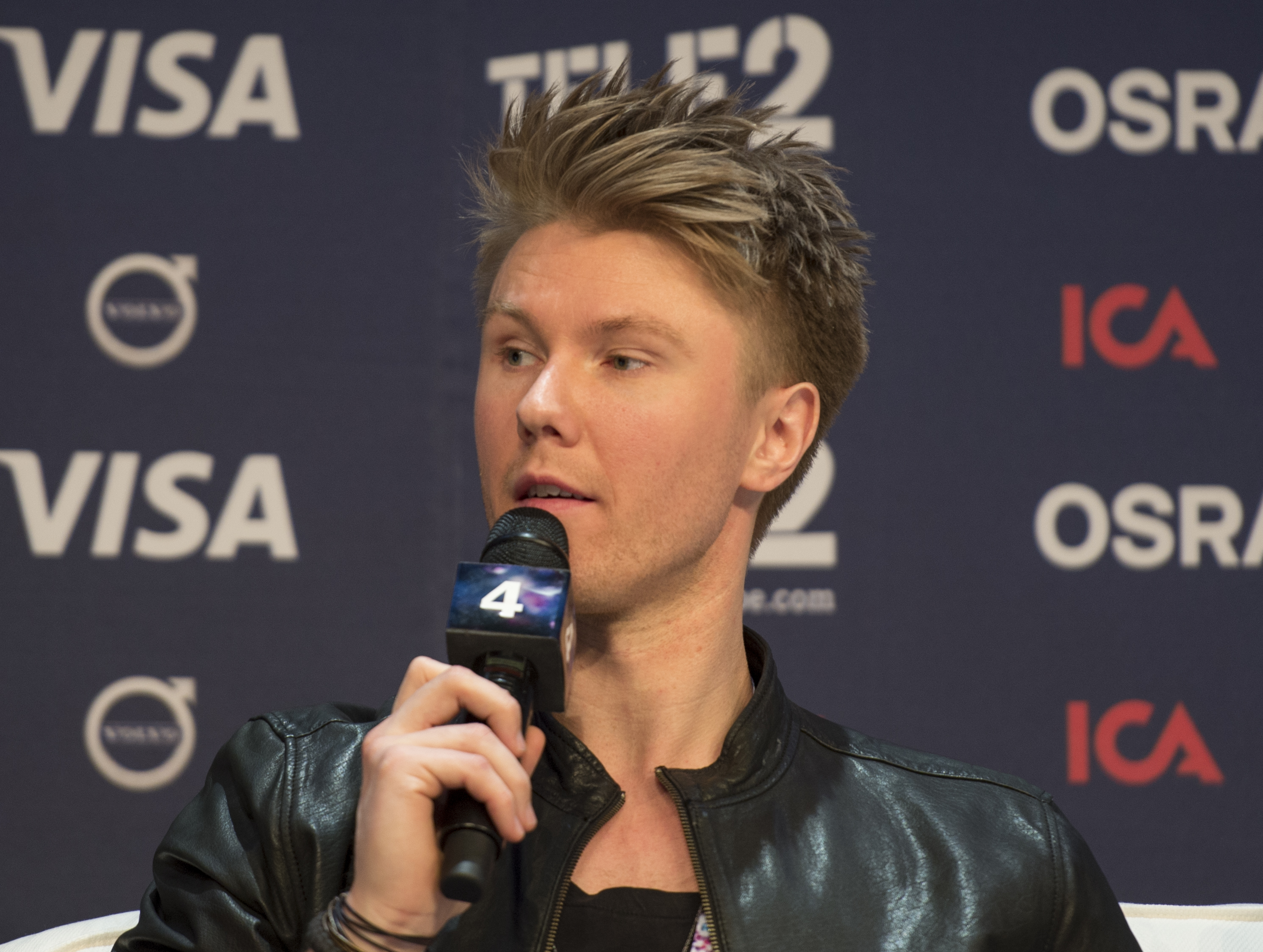 Lighthouse X at a Meet & Greet during the Eurovision Song Contest 2016 in Stockholm. (Help translate this text)